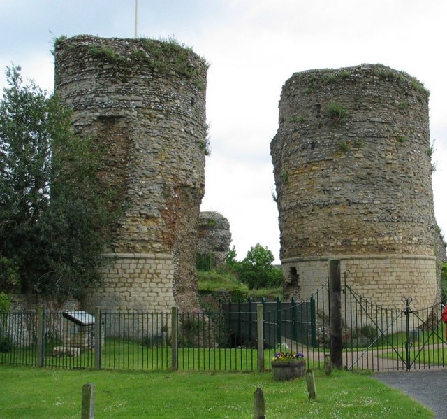 Remains of Bungay Castle in Bungay, Suffolk, England. The remains are a Grade I listed building.